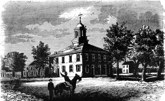 St. Landry Parish Courthouse at Opelousas, Louisiana, during the American Civil War. Period engraving of sketch view.